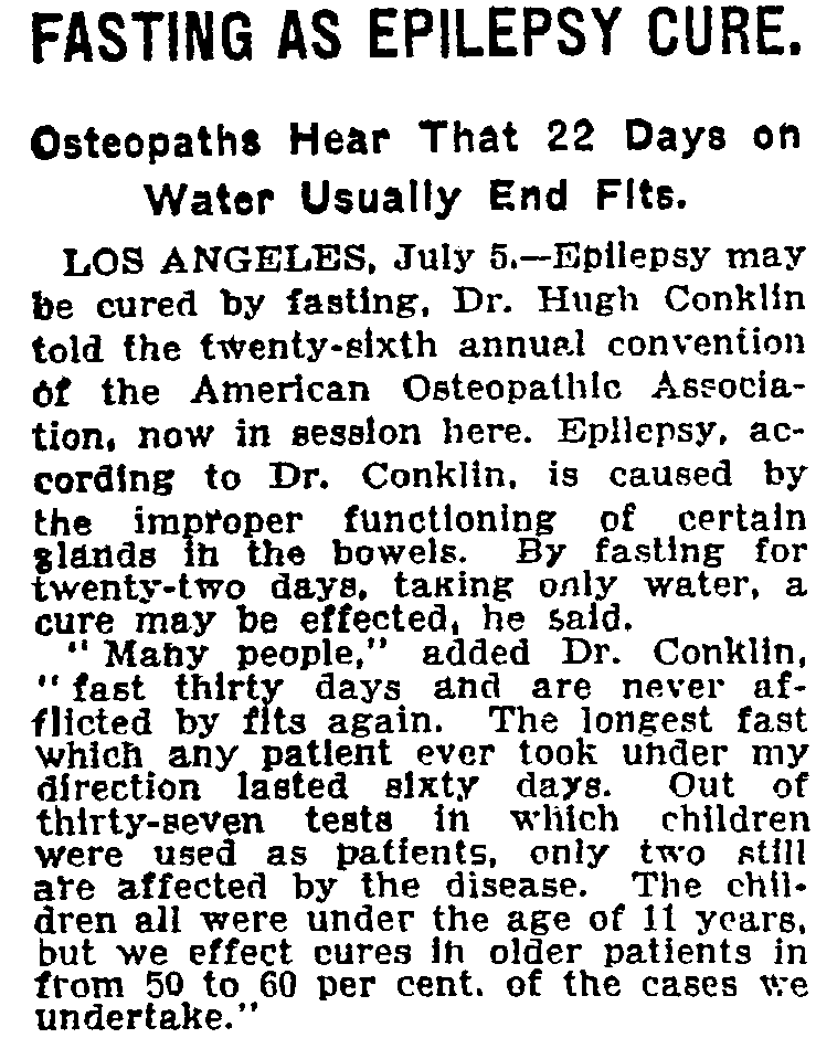 This is a copy of a short newspaper story. The title is "FASTING AS EPILEPSY CURE." and the subtitle "Osteopaths Hear That 22 Days on Water Usually End Fits." The body text is LOS ANGELES, July 5.--Epilepsy may be cured by fasting, Dr. Hugh Conklin told the twenty-sixth annual convention of the American Ostepathic Association, now in session here. Epilepsy, according to Dr. Conklin, is caused by the improper functioning of the bowels. By fasting for twenty-two days, taking only water, a cure may be effected, he said. "Many people," added Dr. Conklin, "fast thirty days and are never afflicted by fits again. The longest fast which any patient ever took under my direction lasted sixty days. Out of thirty-seven tests in which children were used as patients, only two still are affected by the disease. The children were all under the age of 11 years, but we effect cures in older patients in from 50 to 60 per cent. of the cases we undertake."